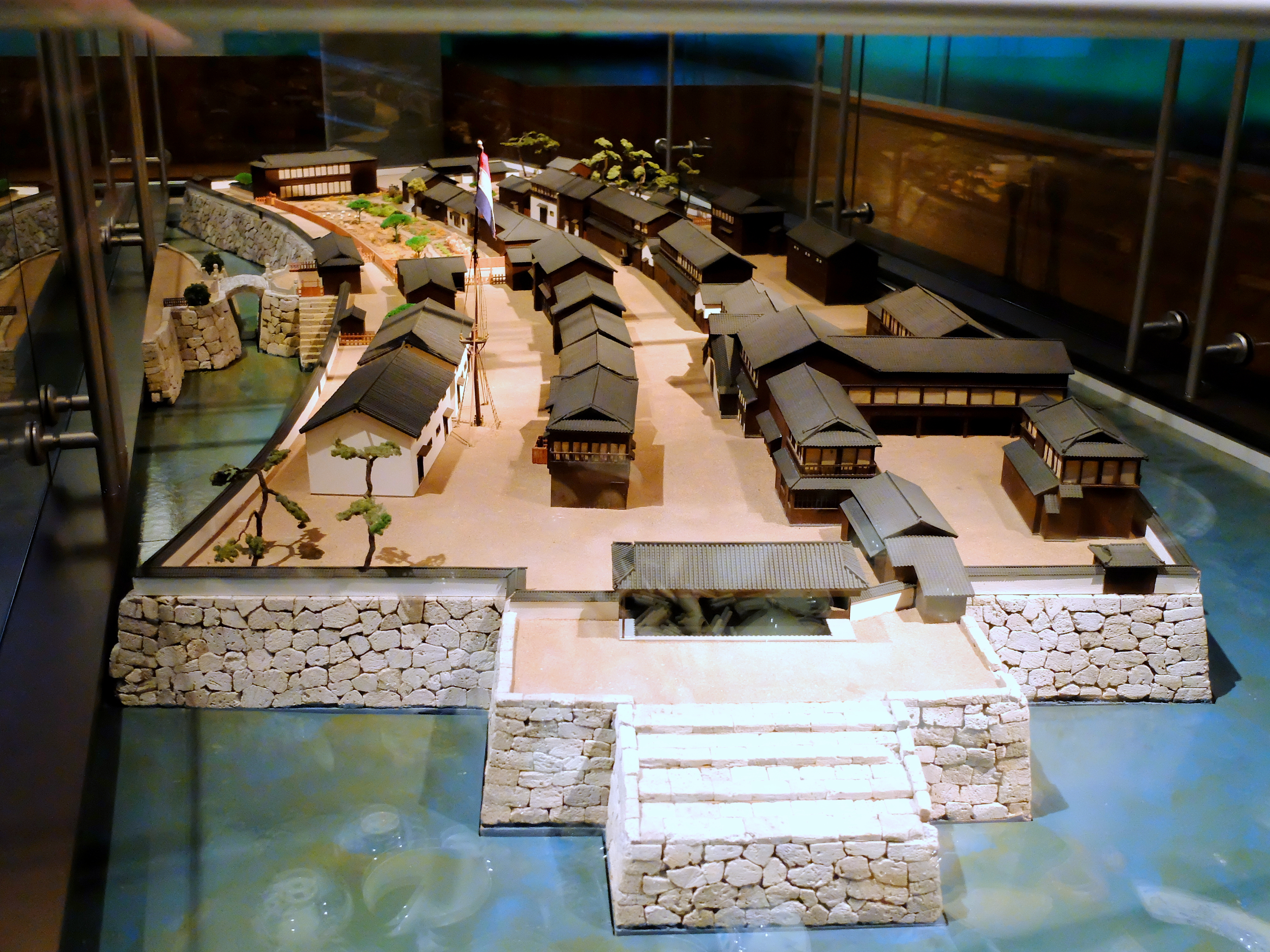 Model of the Dutch colony at Dejima, Japan, as exhibited at the Museum Volkenkunde, Leiden